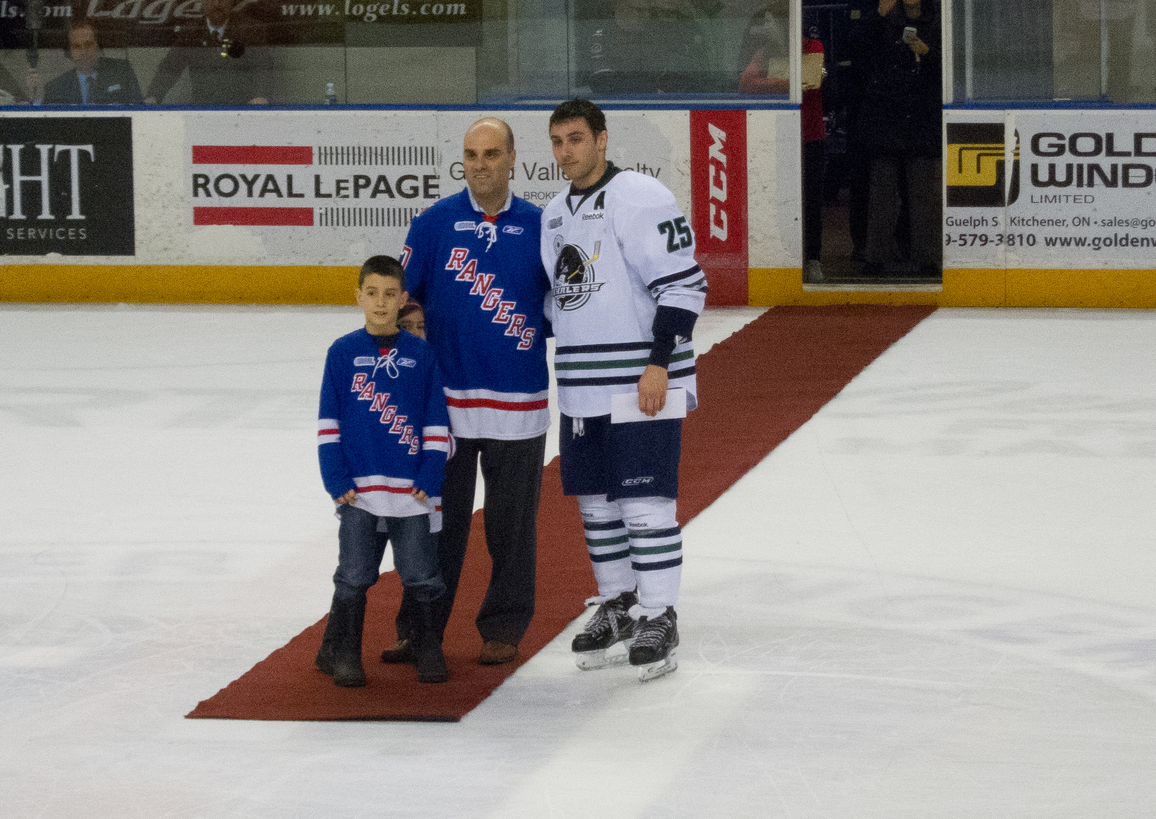 Vincent Trocheck of the Plymouth Whalers being named one of the three Stars of the game after a match against the Kitchener Rangers